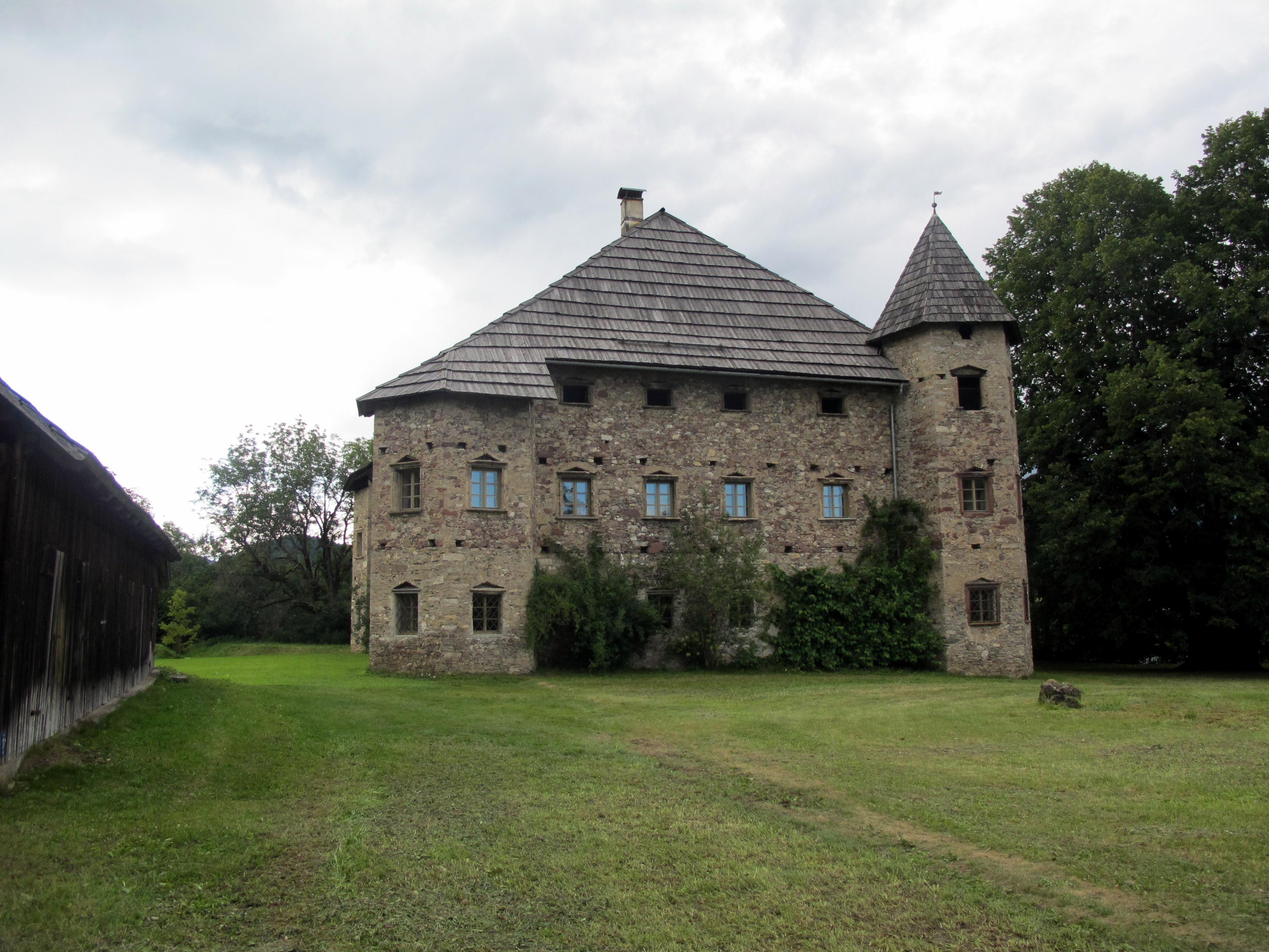 Pöllan Castle, courtyard of an administrator, in Pöllan at Paternion around 2011, district Villach-Land in Carinthia / Austria / EU. The still not finished construction of rubble stone was built by Christoph von Haidenreich from 1598 to 1616. He was a Protestant administrators of the county Paternion, who was forced by the Catholics in Carinthia for sale and into exile. From 1616 the castle was owned by Moritz Christoph Khevenhüller. Since 1629 the castle is owned by the family Widmann, today the family Widmann-Foscari Rezzonico.